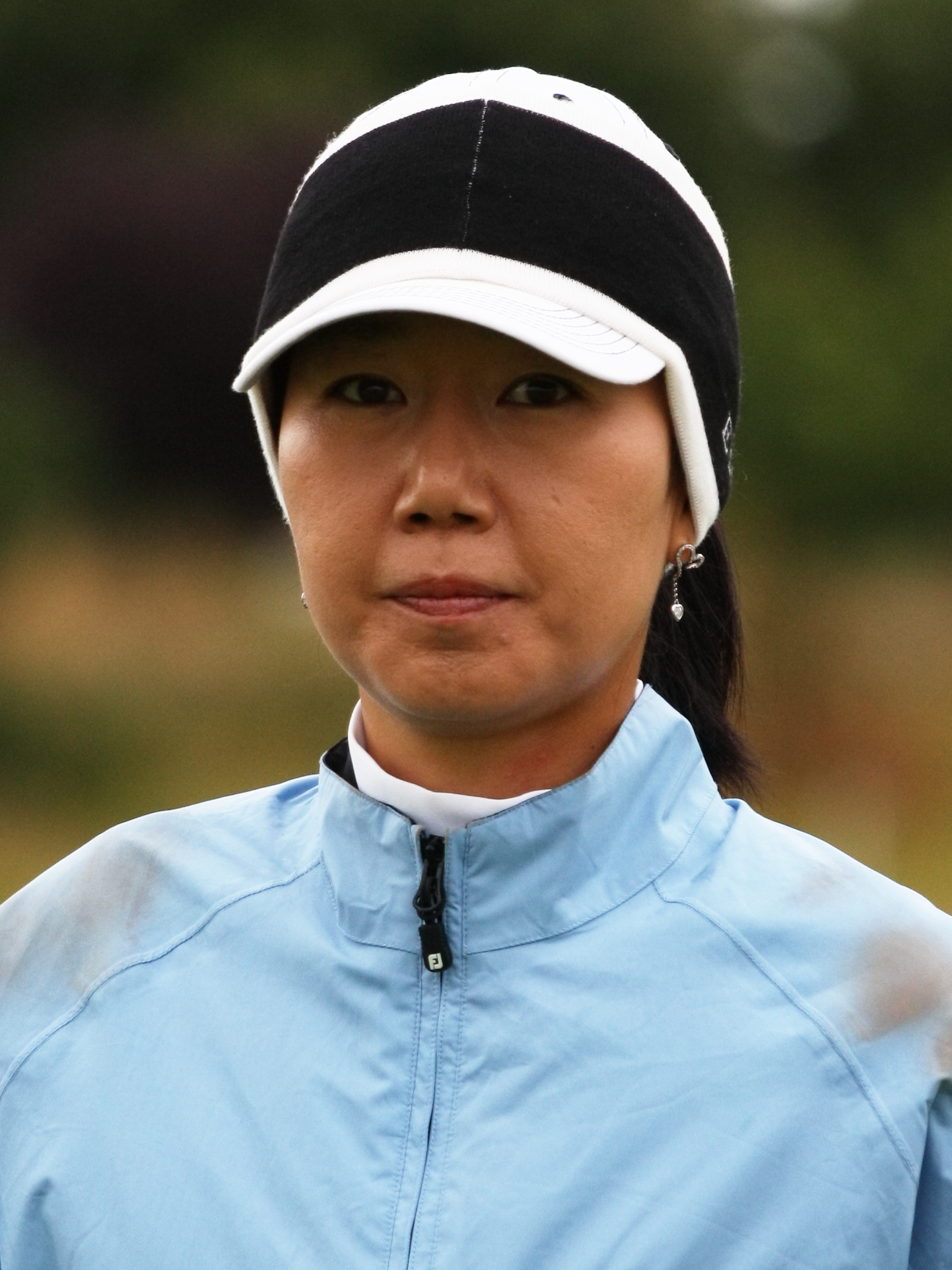 LYTHAM ST ANNES, UNITED KINGDOM - JULY 29: Soo Yun Kang of South Korea walks off the 11th green during third practice round before 2009 Ricoh Women's British Open held at Royal Lytham & St Annes on July 29, 2009 in Lytham St Annes, England. (Photo by Wojciech Migda)